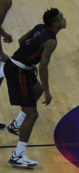 The Duke Blue Devils and the Robert Morris Colonials jump it up to start their second round NCAA Tournament game in Charlotte